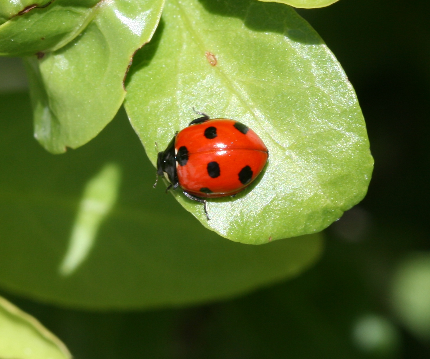 Lajares, Fuerteventura